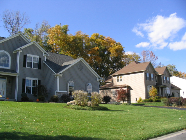 photo of the Pastures housing development in Cicero, NY, taken by me on October 13, 2006